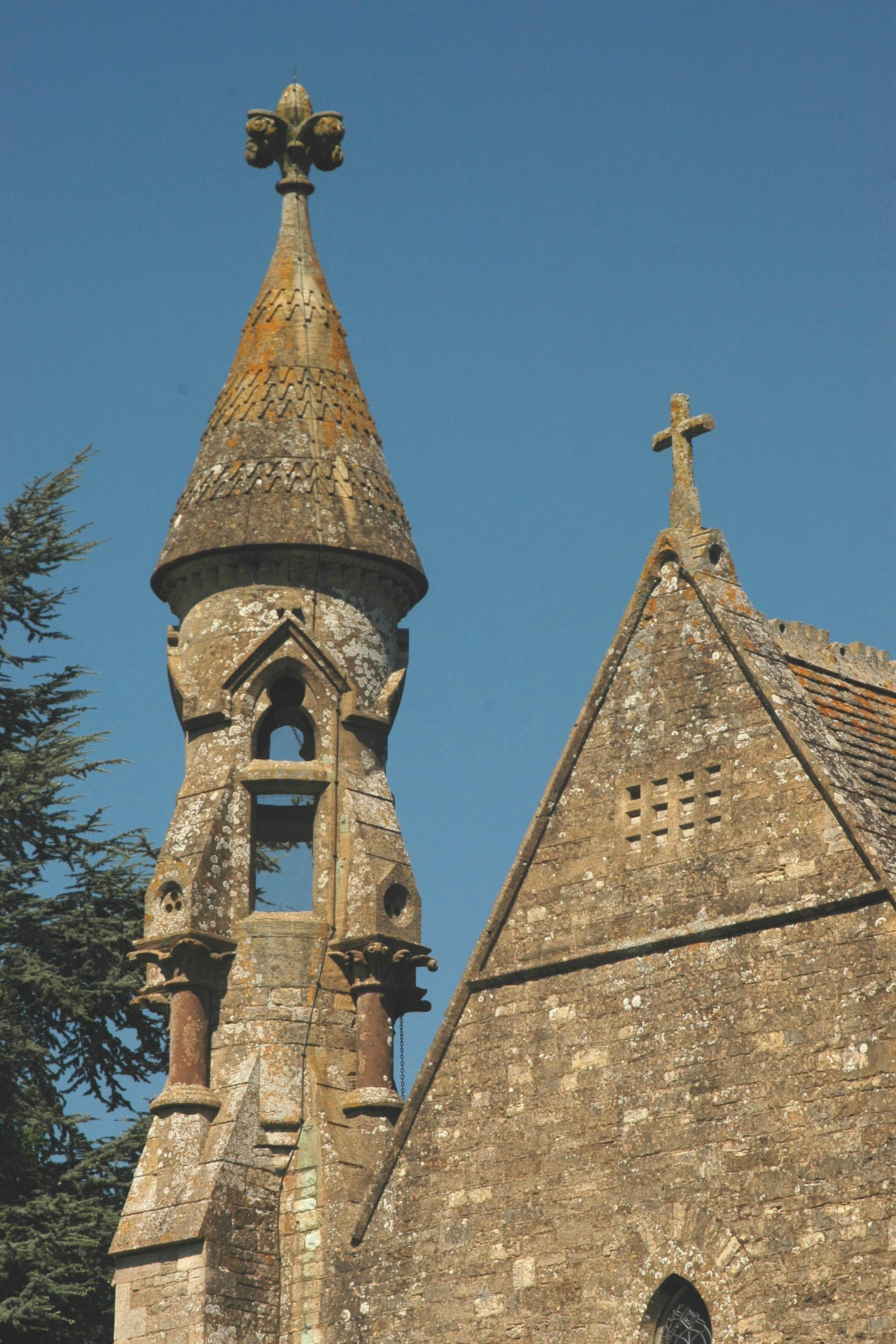 Bell-turret of the Church of England parish church of St John the Evangelist, Hailey, Oxfordshire